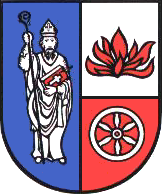 Coat of Arms of Wüstheuterode